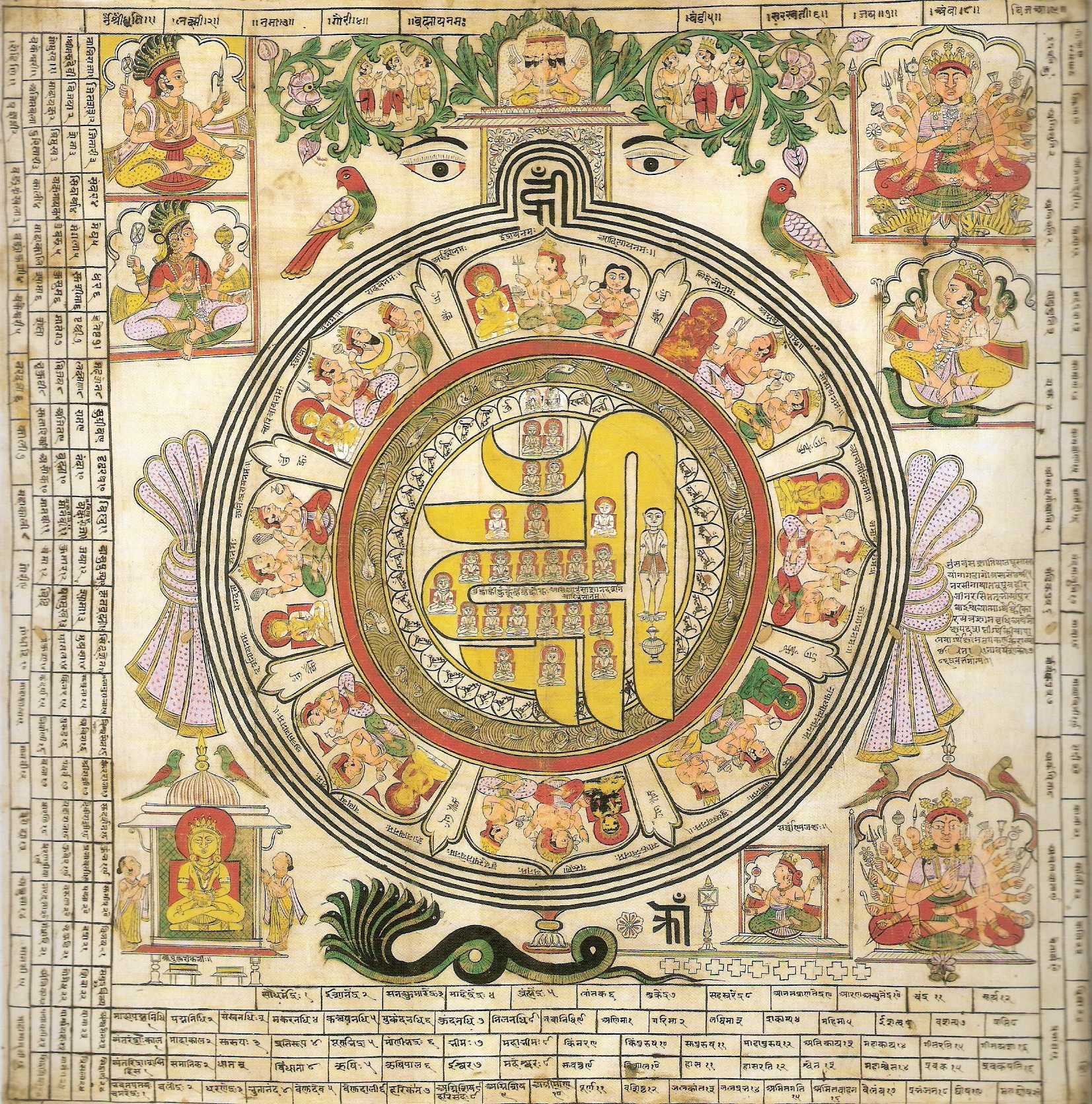 Painting depicting Om Hrim Siddhi Chakra Mandala 18th Century